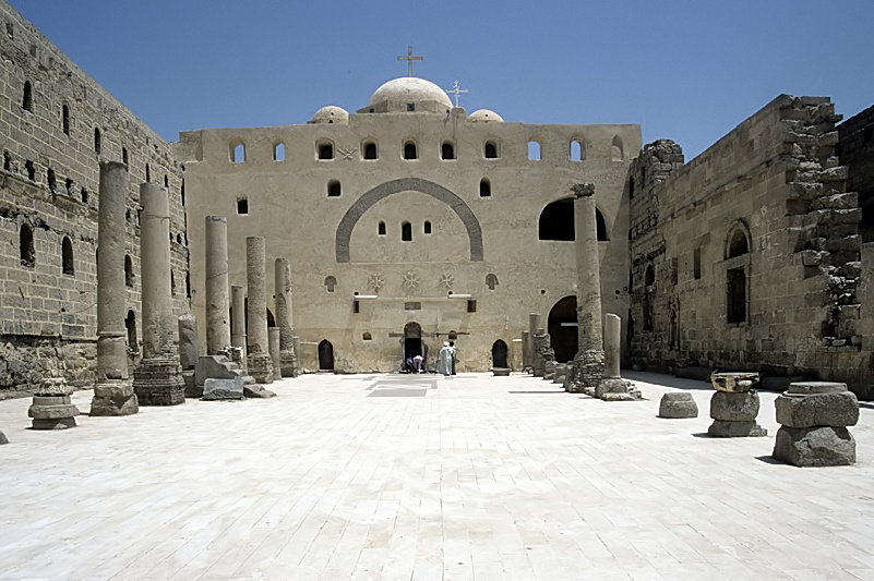 Court, view to the east, White Monastery, governorate of Sohag, Egypt